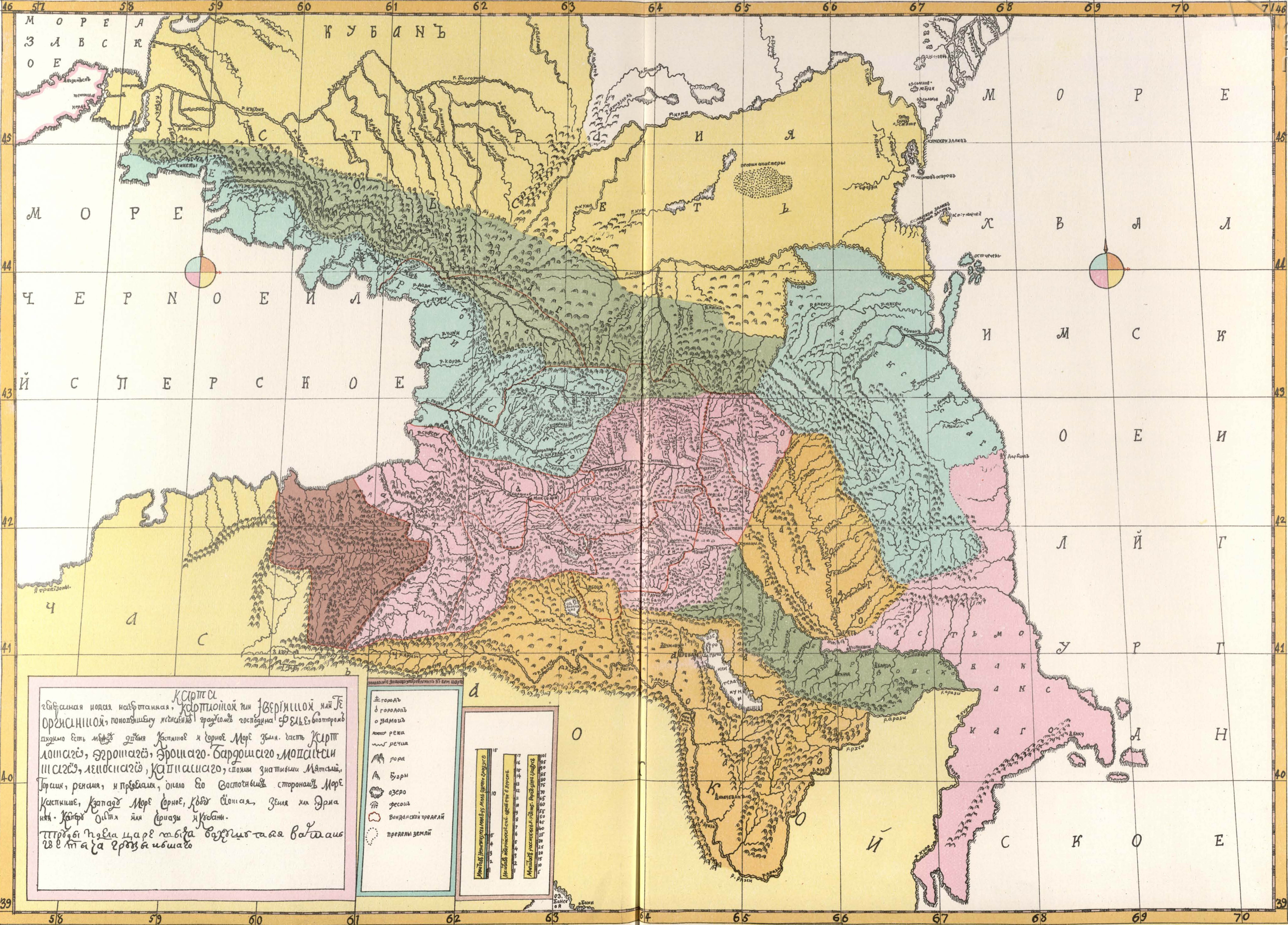 Map of Georgia by Prince Vakhushti Bagrationi